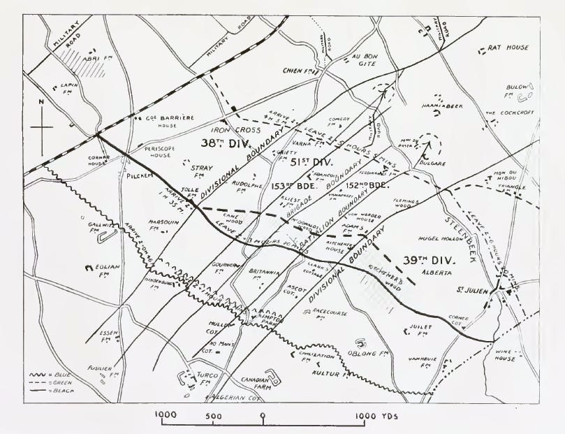 Map depicting the movement of the 51st (Highland) Infantry Division, during the Battle of Pilckem Ridge, 31 July 1917. In addition, highlights the areas attacked by the 38th (Welsh) Infantry Division and the 39th Division